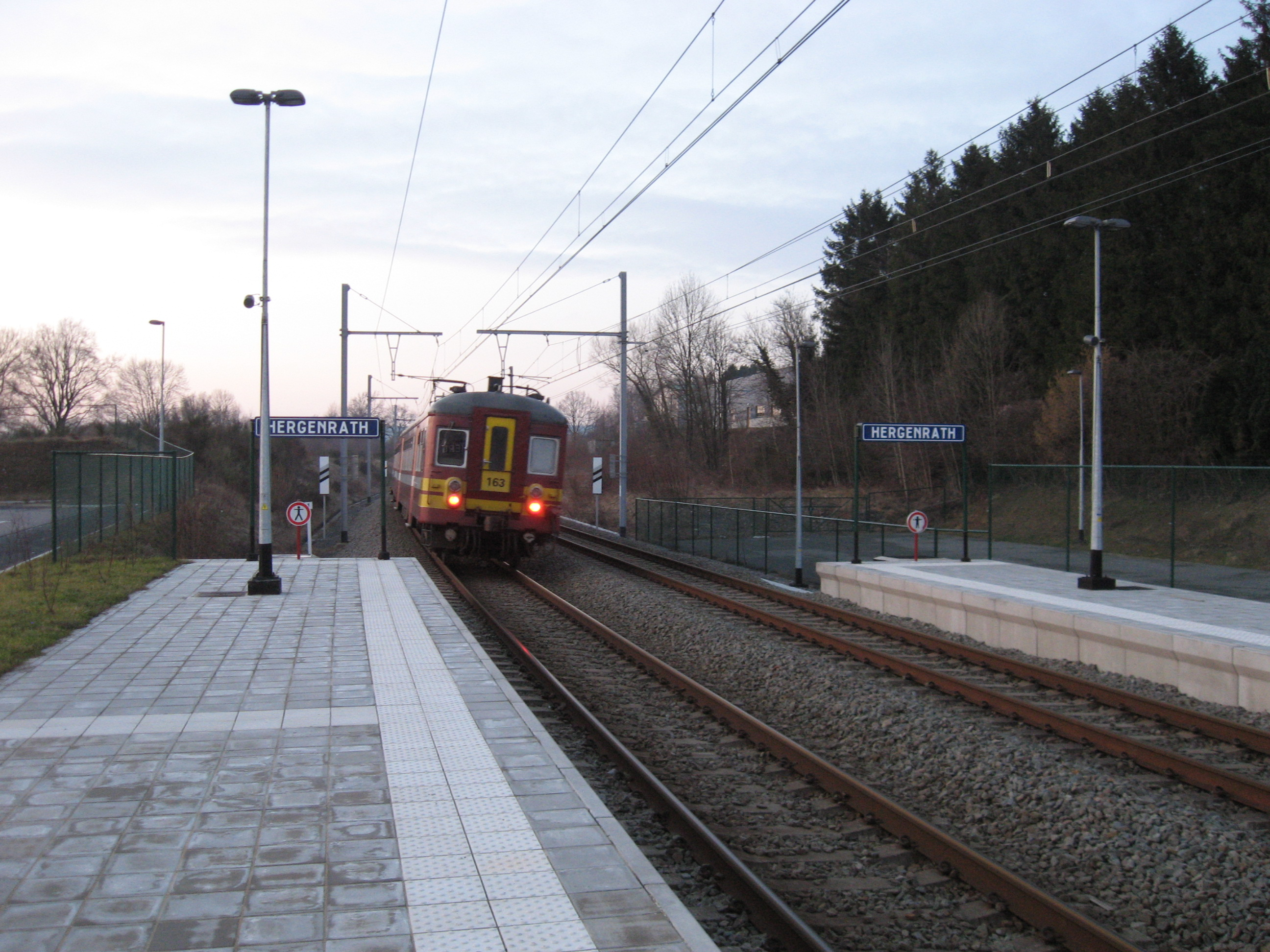 Local train (IR) leaving Hergenrath station in the direction of Welkenraeth.